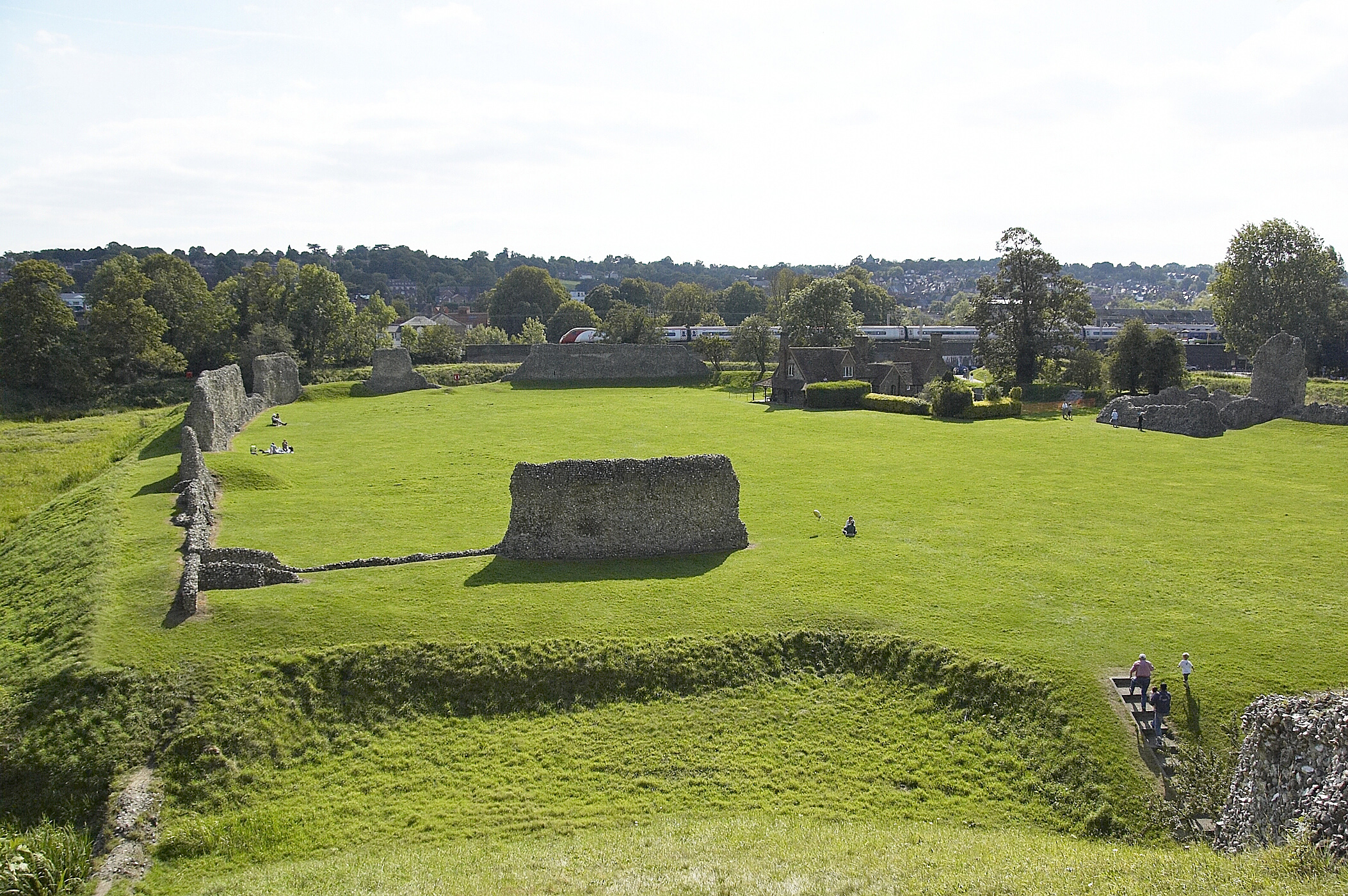 Berkhamsted Castle in Hertfordshire UK